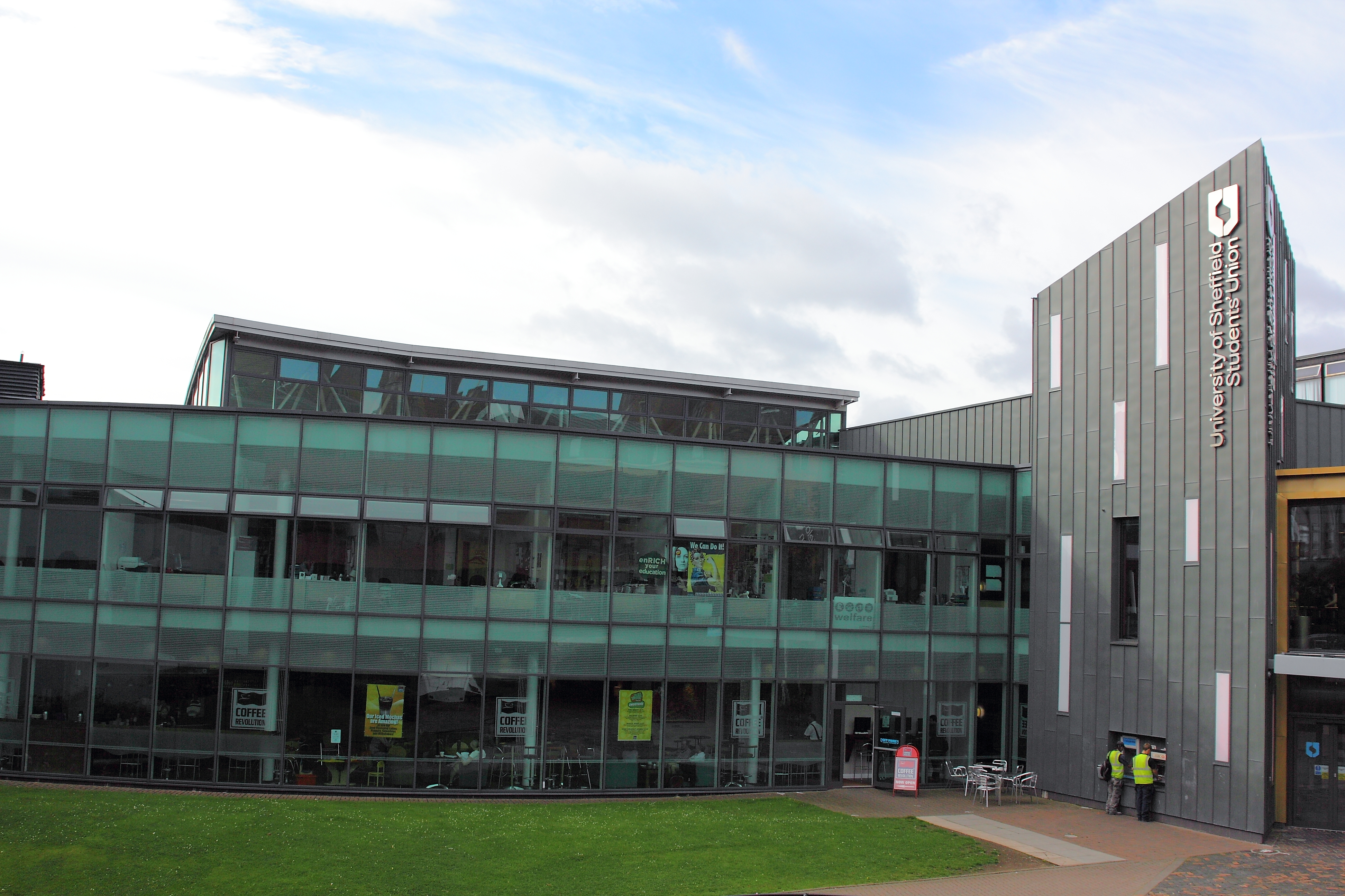 Shefunistudentunion2012